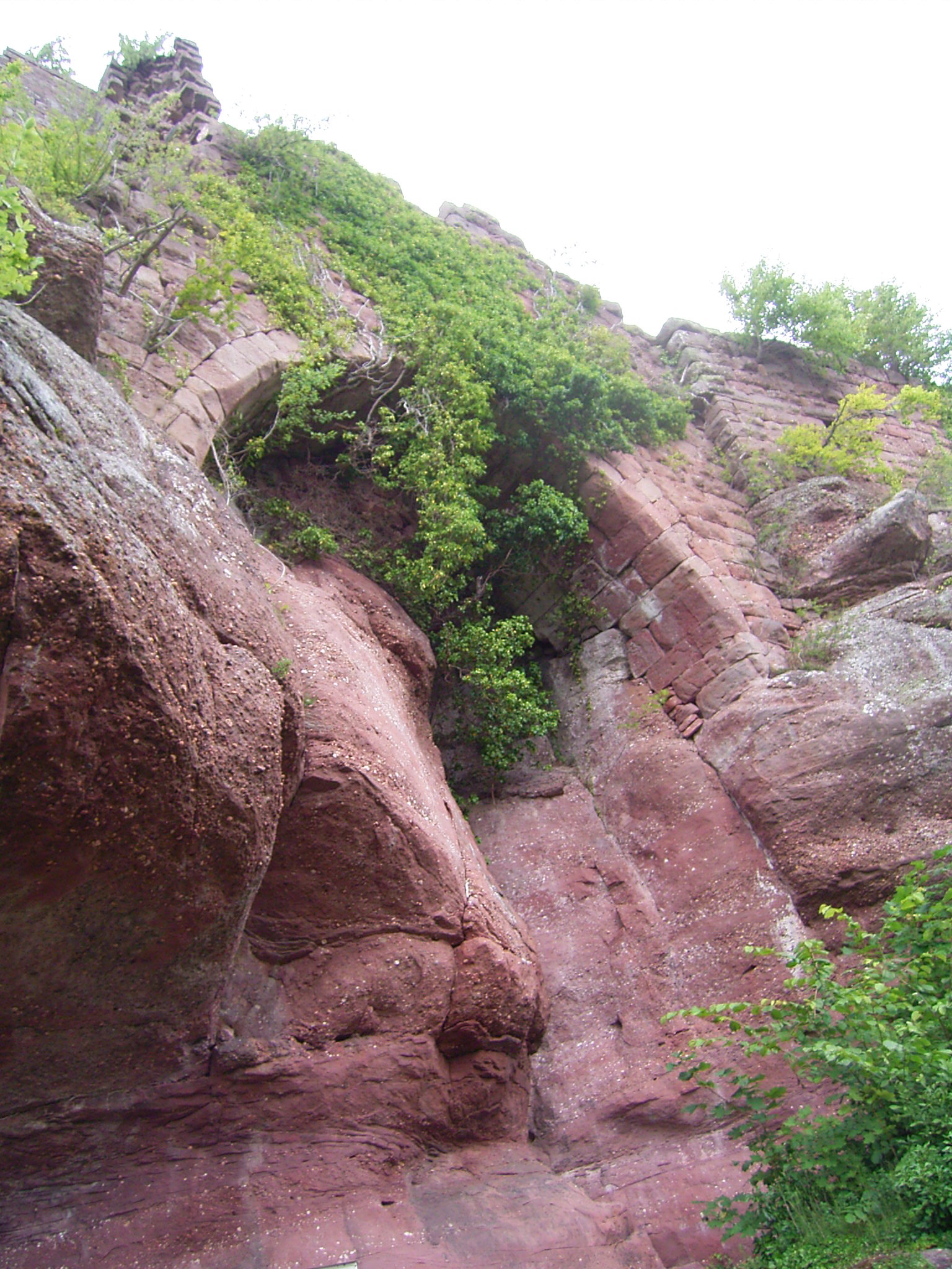 Support vault in the castle of Girbaden, Bas-Rhin, France